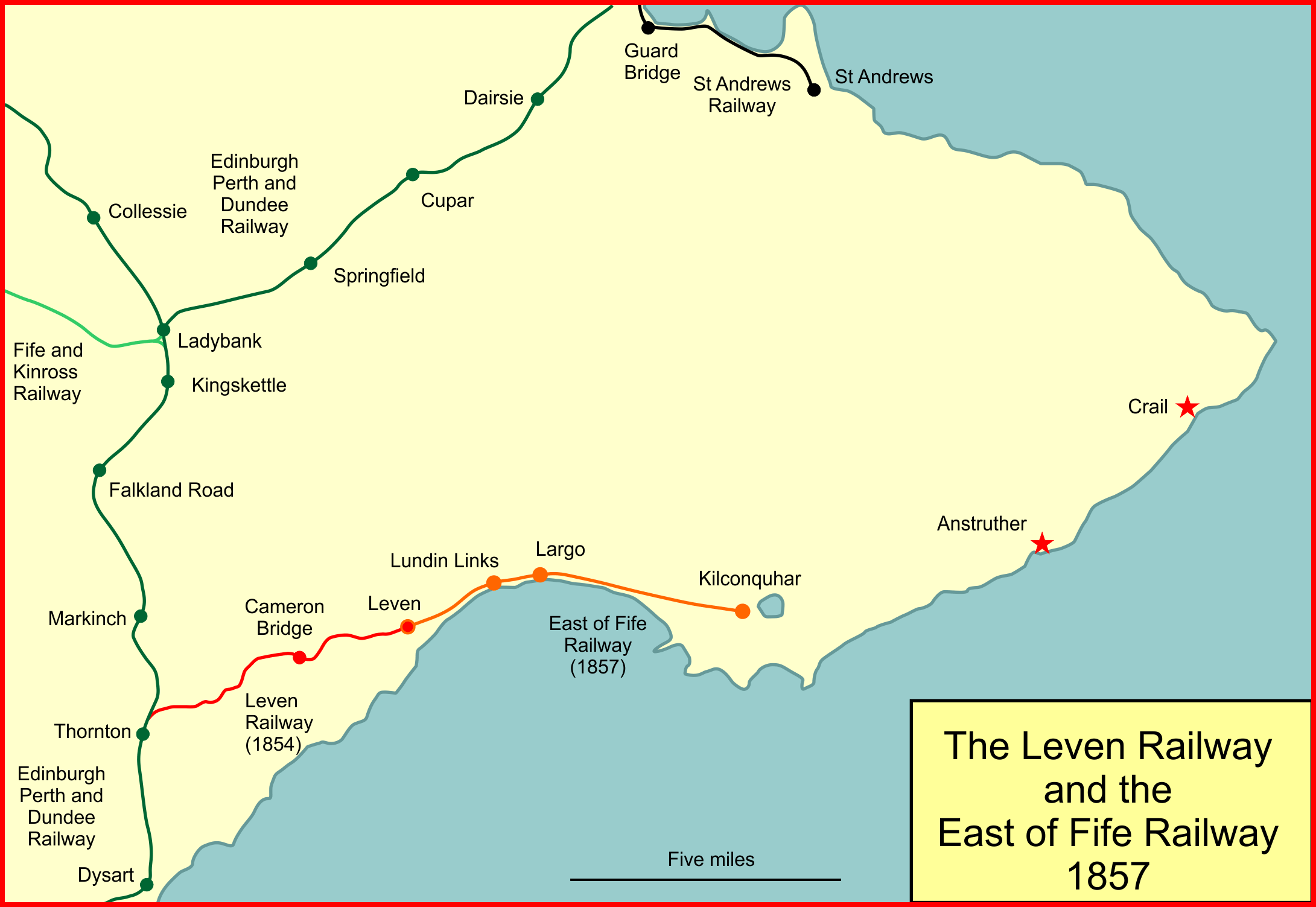 System map of the Leven Railway and the East of Fife Railway in Scotland in 1857